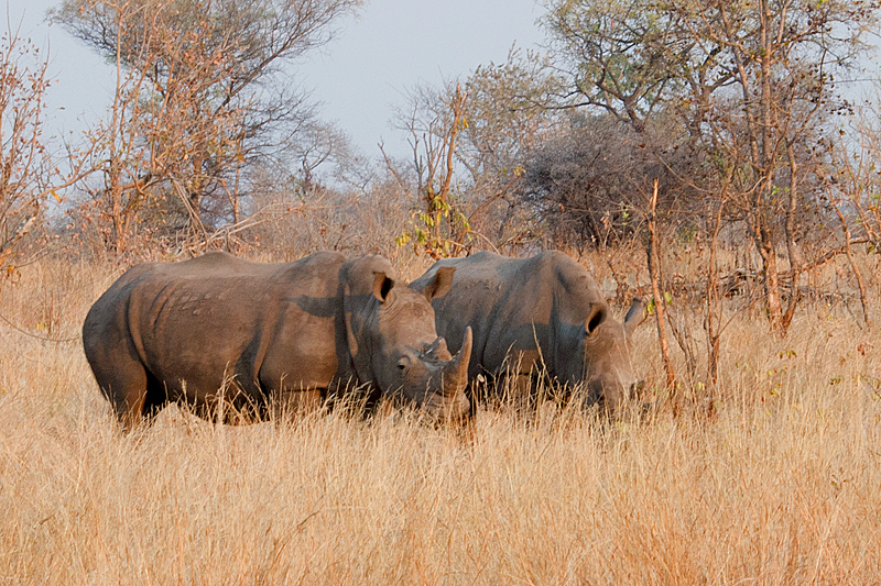 Southern White Rhino male & female